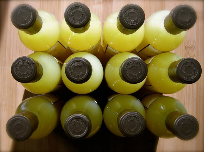 12 Limoncello Bottles view from top.